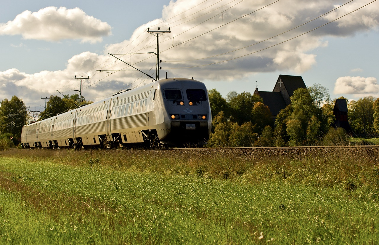 One SJ2000 train to Sundsvall at Old Uppsala, Sept 2010.